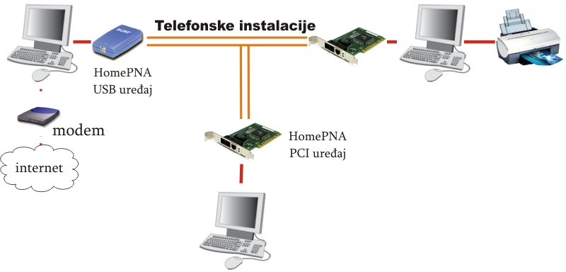 HomePNA network